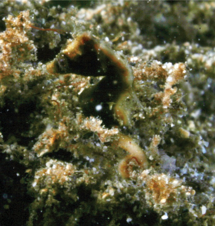 Hippocampus severnsi (host not collected) Siladen I, SE Siladen (photo B.T. Reijnen).